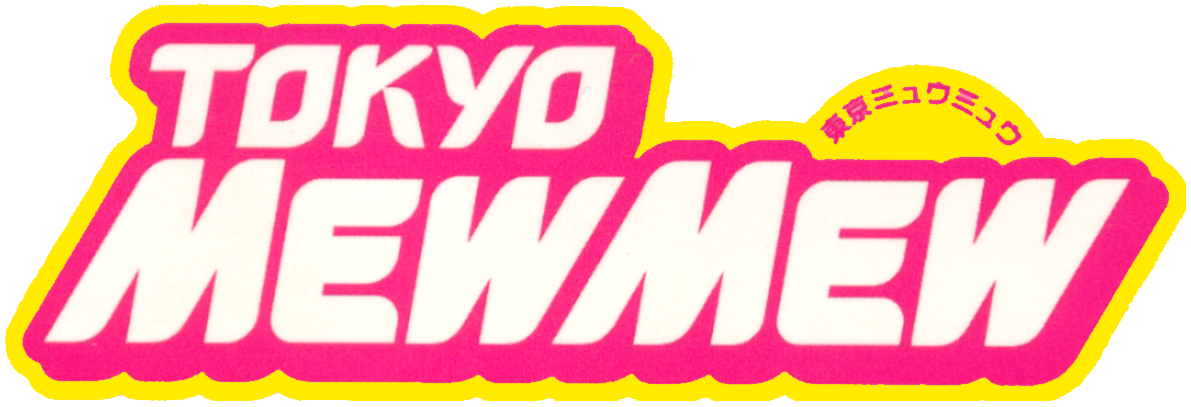 Logo of Tokyo Mew Mew